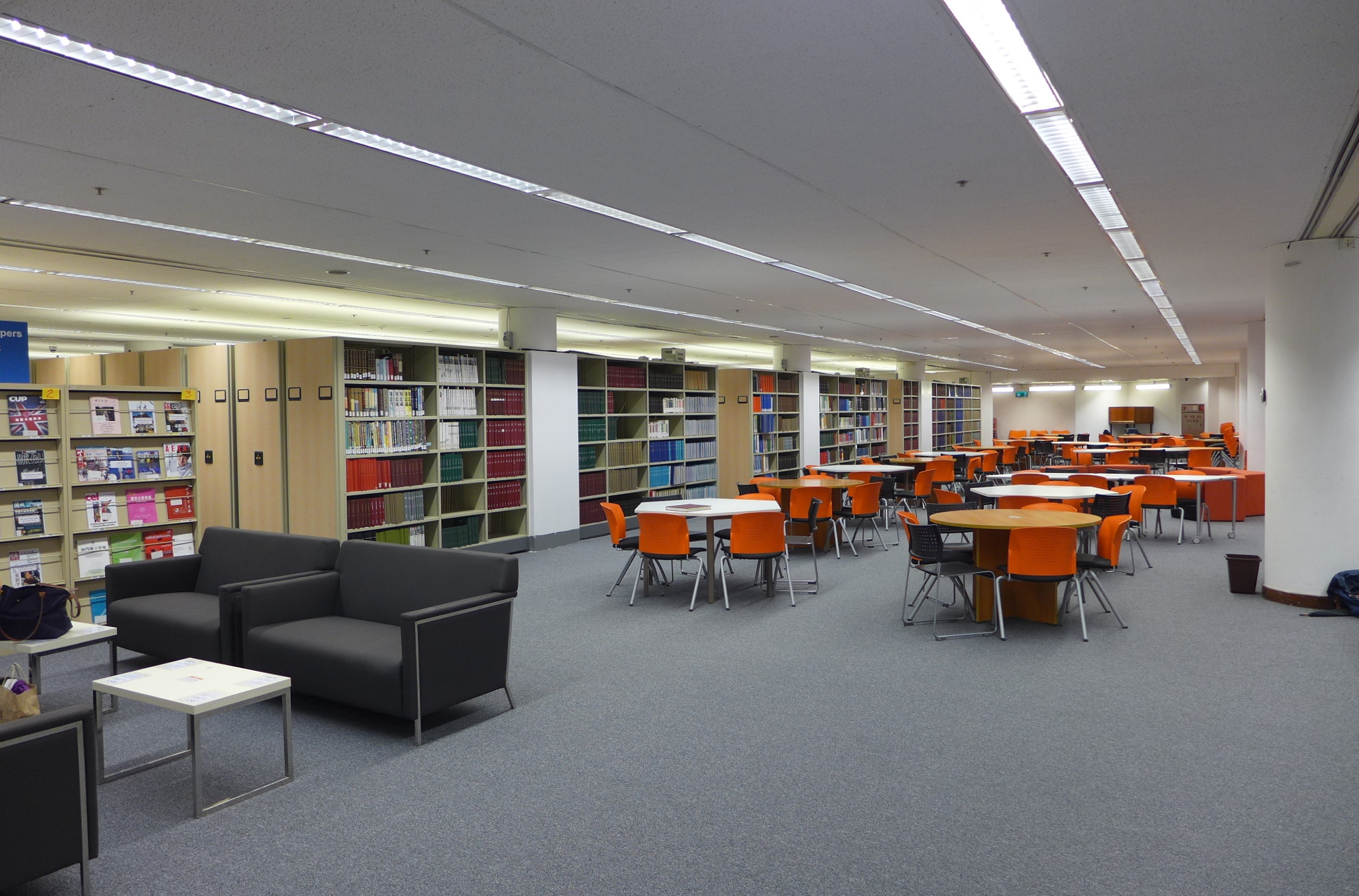 Pao Yue-kong Library GF Discussion Zone1